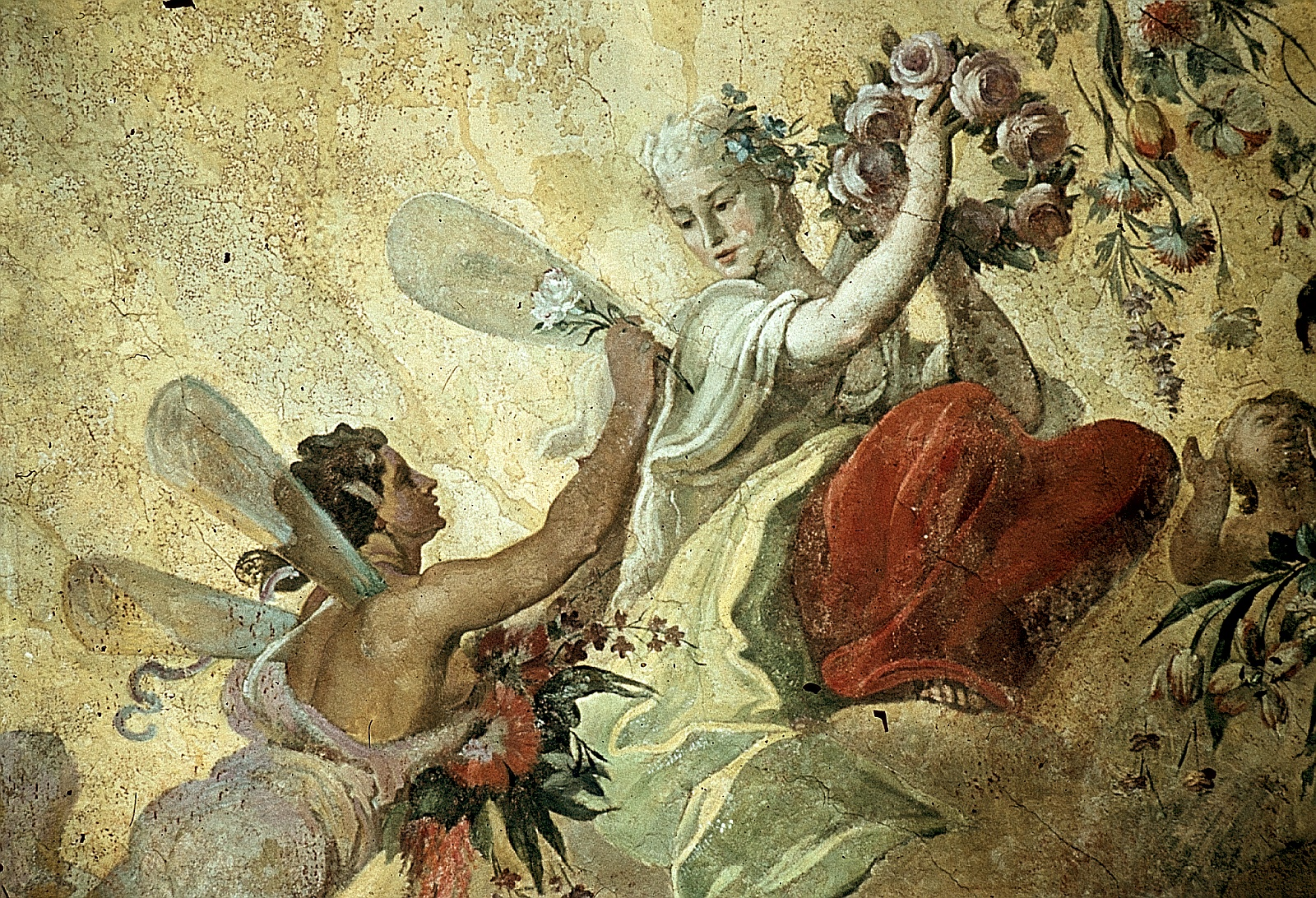 t